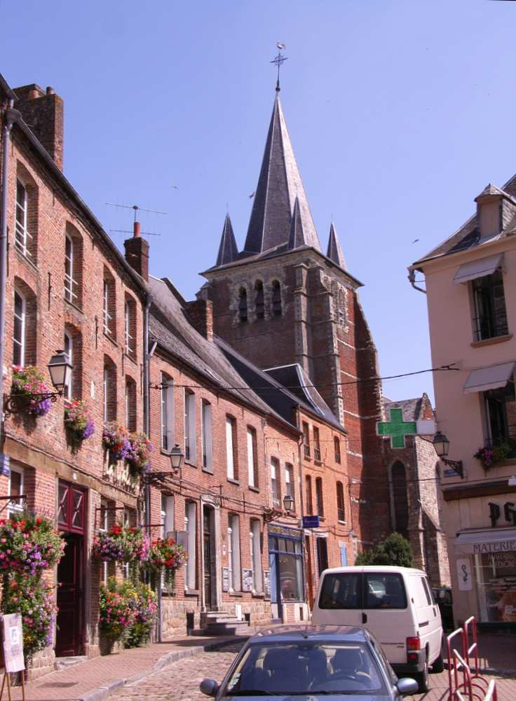 Town center Vervins with church, France